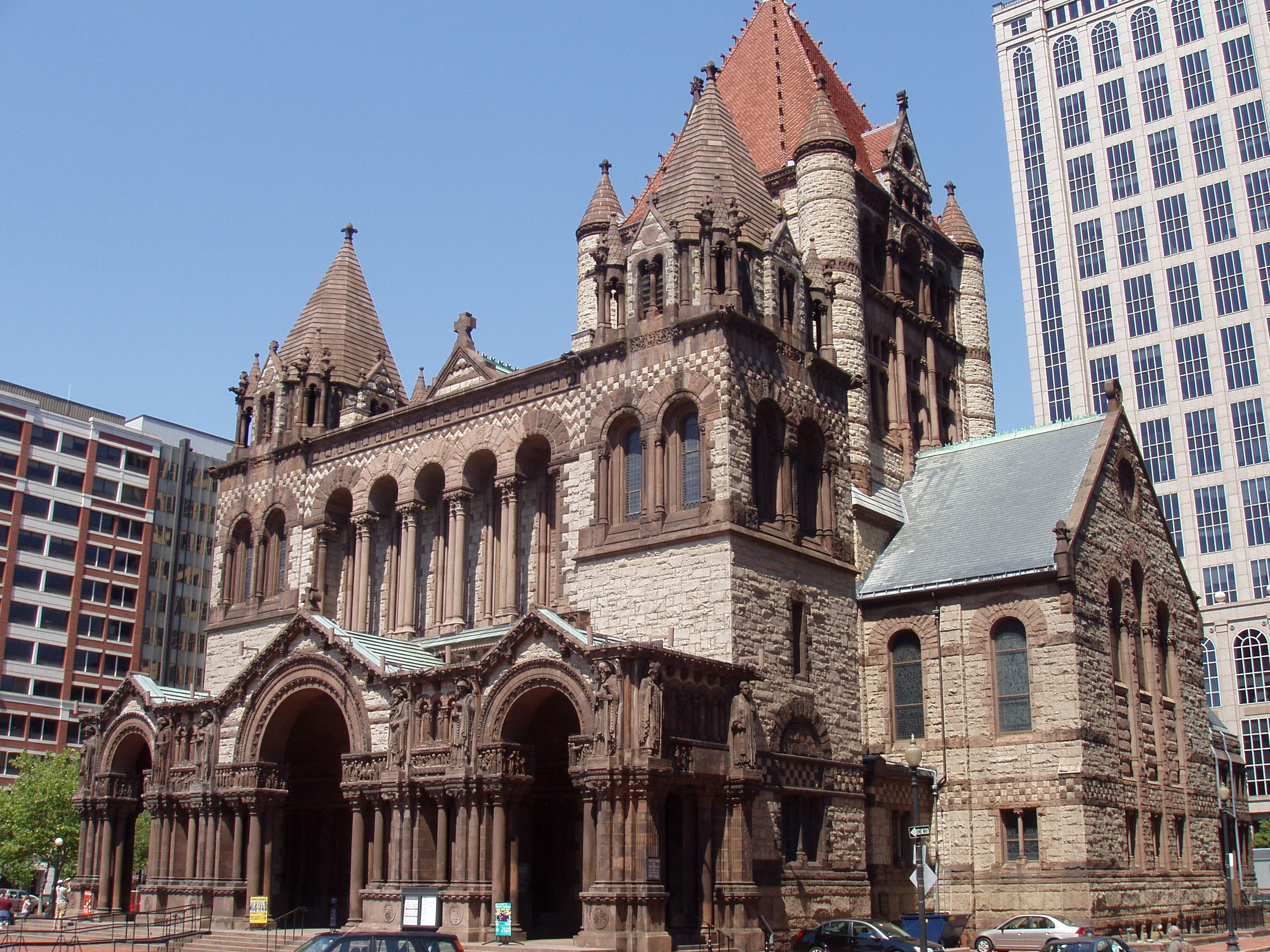 Trinity Church, Boston, Massachusetts - front oblique view. Photograph taken by me, July 2005.